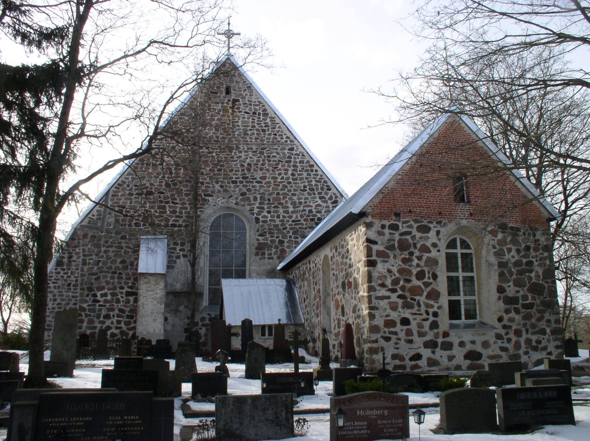 Pargas church in Väståboland (previously Pargas), Finland.